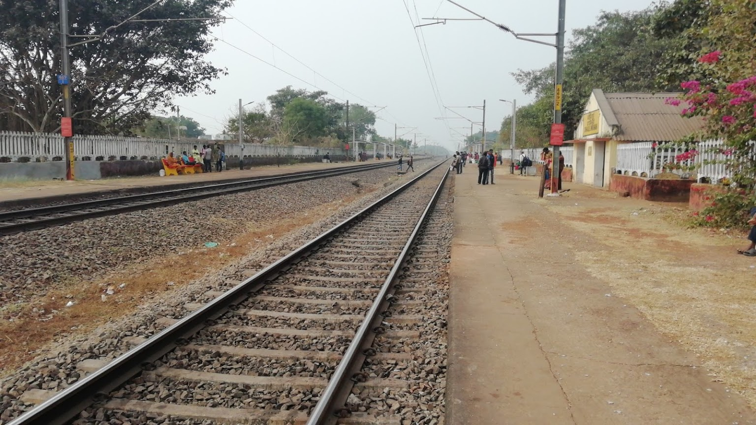 This is the Picture of Dhulimuhan railway station